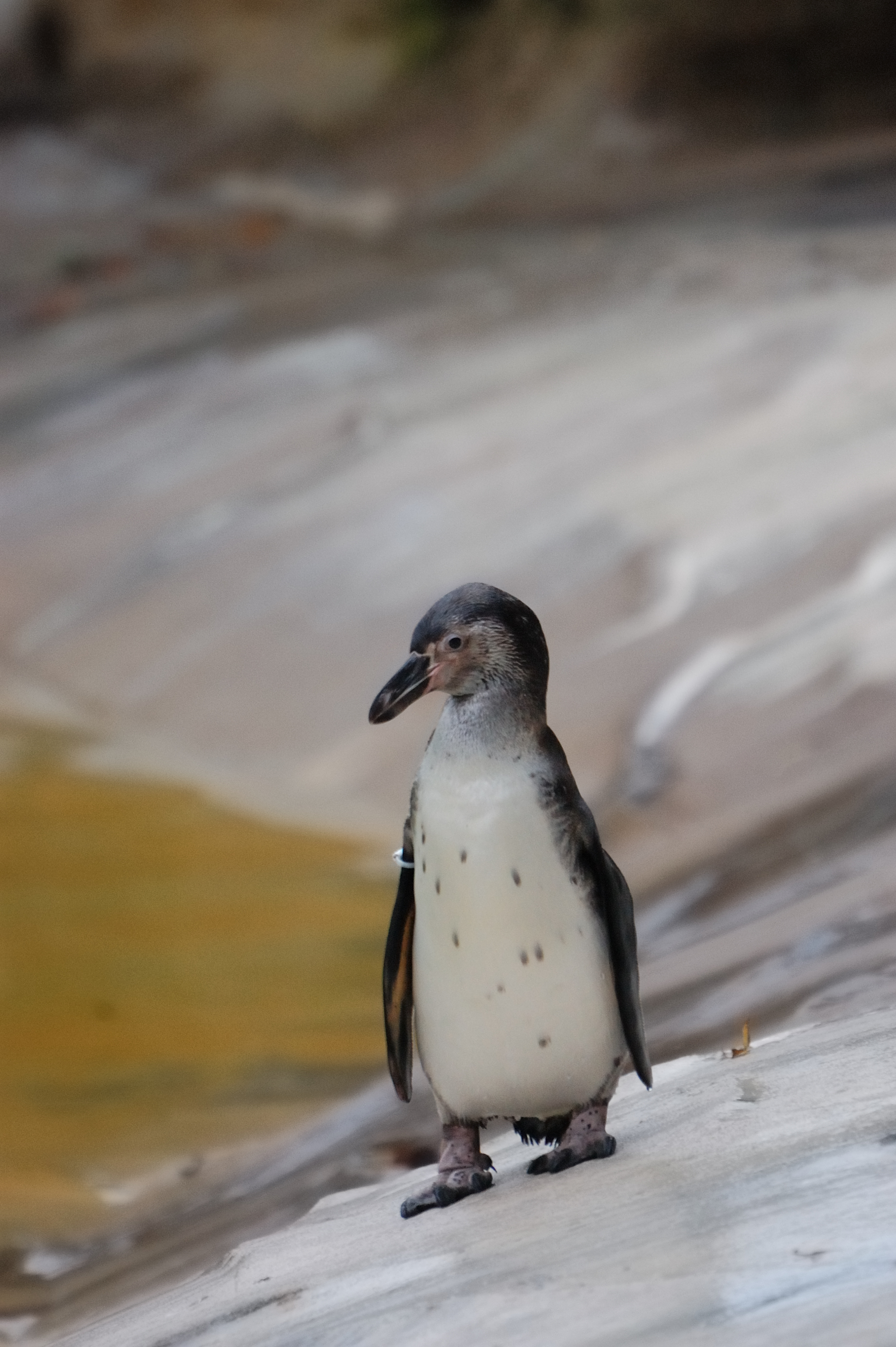 A juvenile Humboldt Penguin. Being younger, it has a paler face, and it lacks this species' characteristic dark line on the mandible (neck).